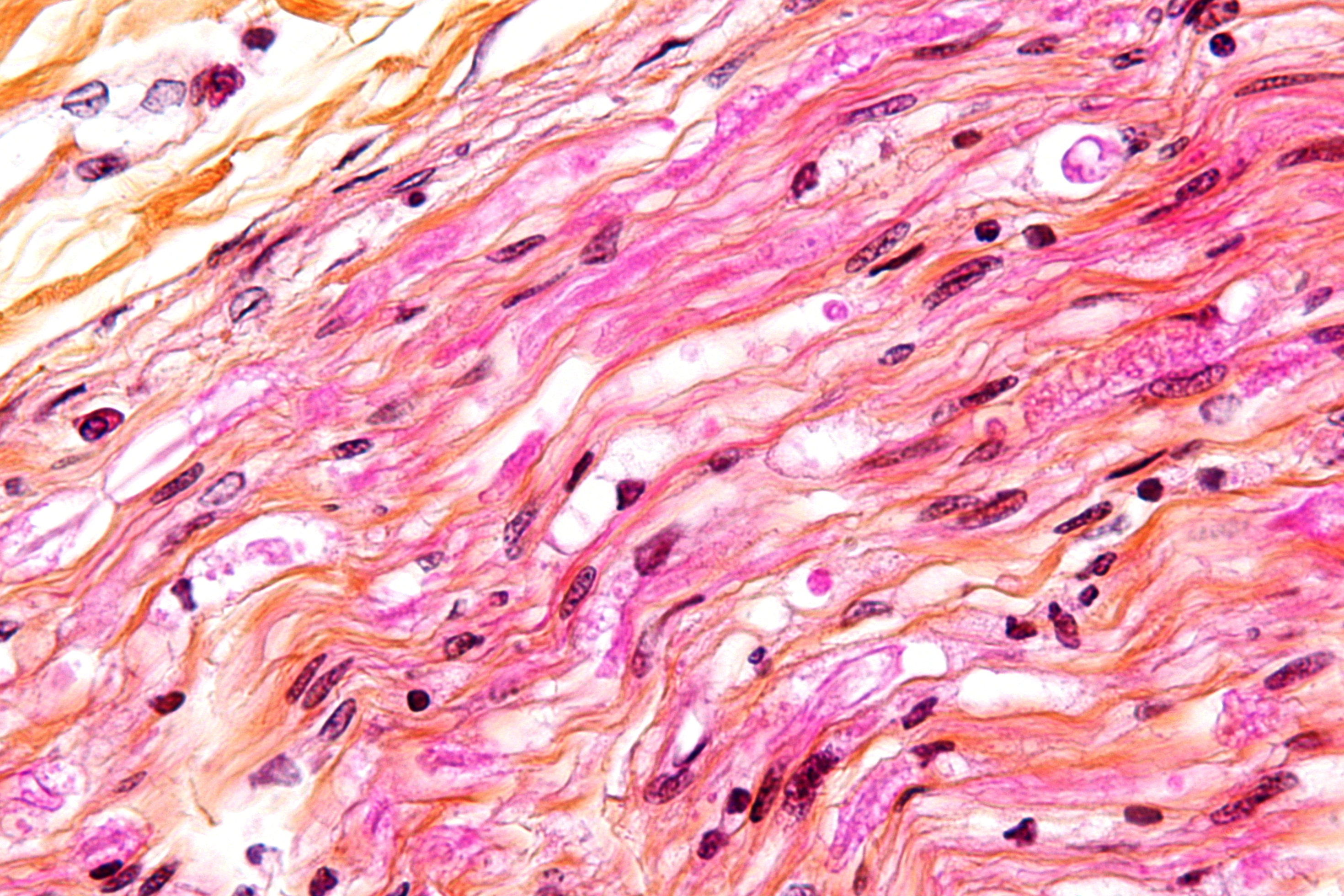 Very high magnification micrograph showing digestion chambers, a feature of Wallerian degeneration. HPS stain. Related images Very high mag. Very high mag. (cropped) Very high mag. (cropped) Very high mag. High mag.